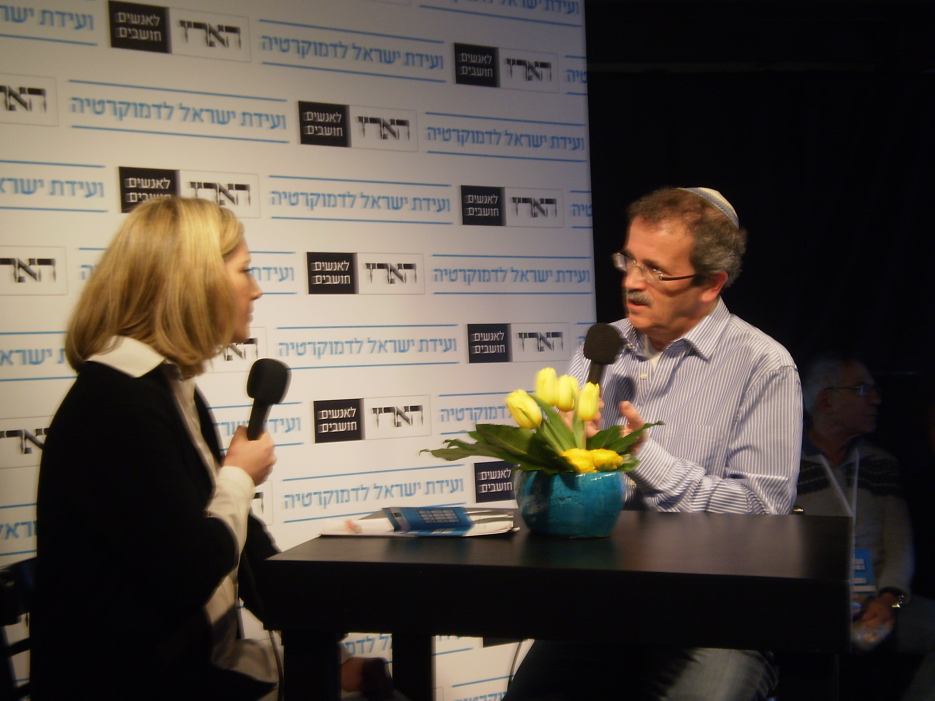 Neta Achituv interviews Yedidia Stern